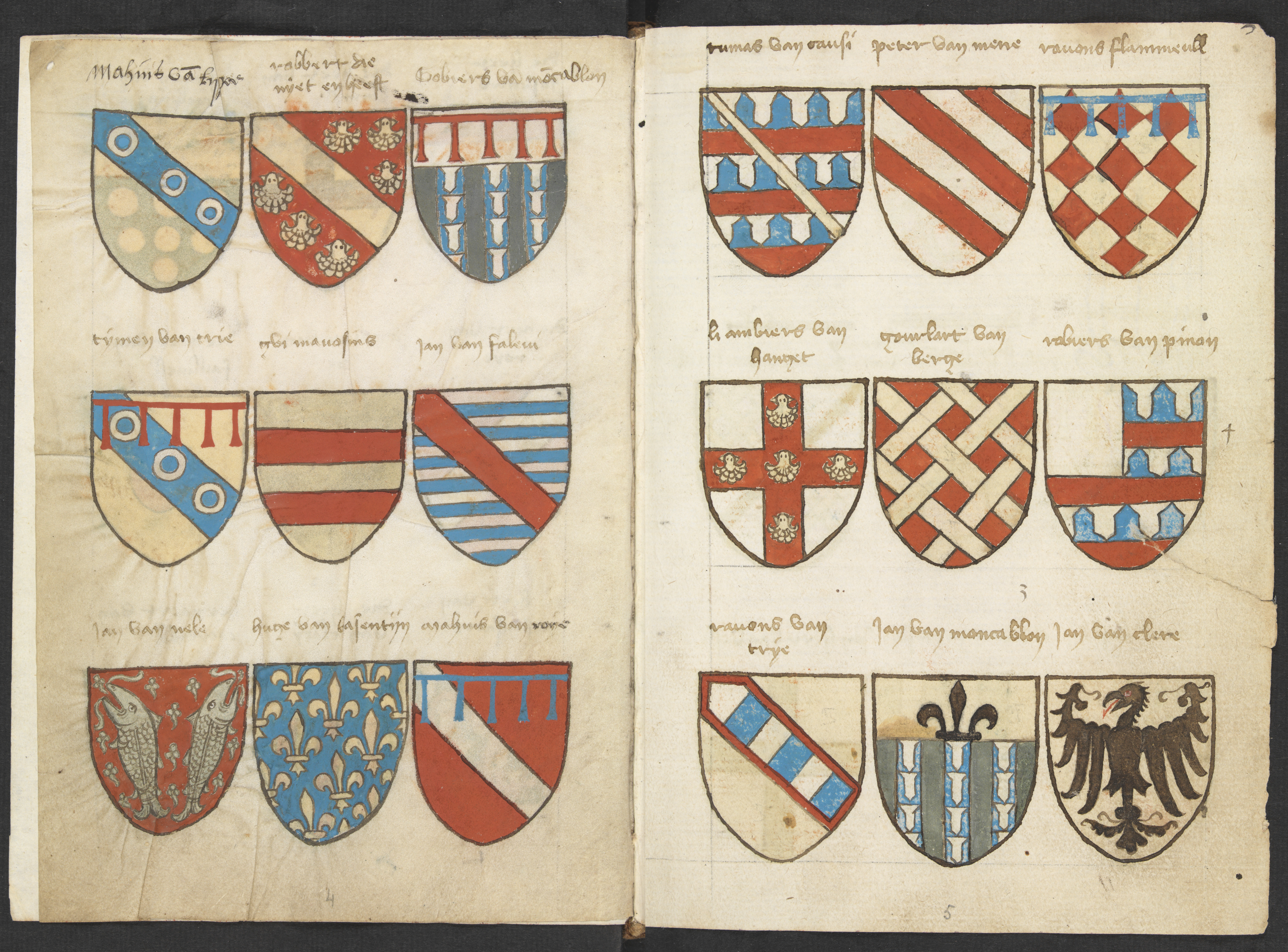 Lefthand side folio 002v; righthand side folio 003r from the Beyeren armorial / Wapenboek Beyeren